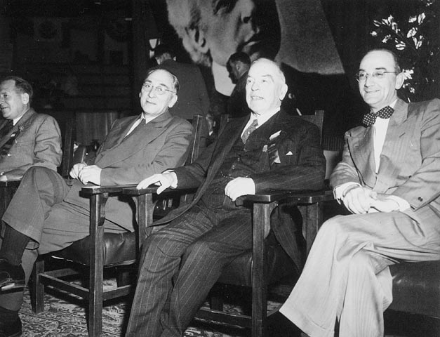 Hon. F.G. Bradley, Rt. Hon. W.L. Mackenzie King and Mr. J.R. Smallwood listening with amusement to speeches during the National Liberal Convention